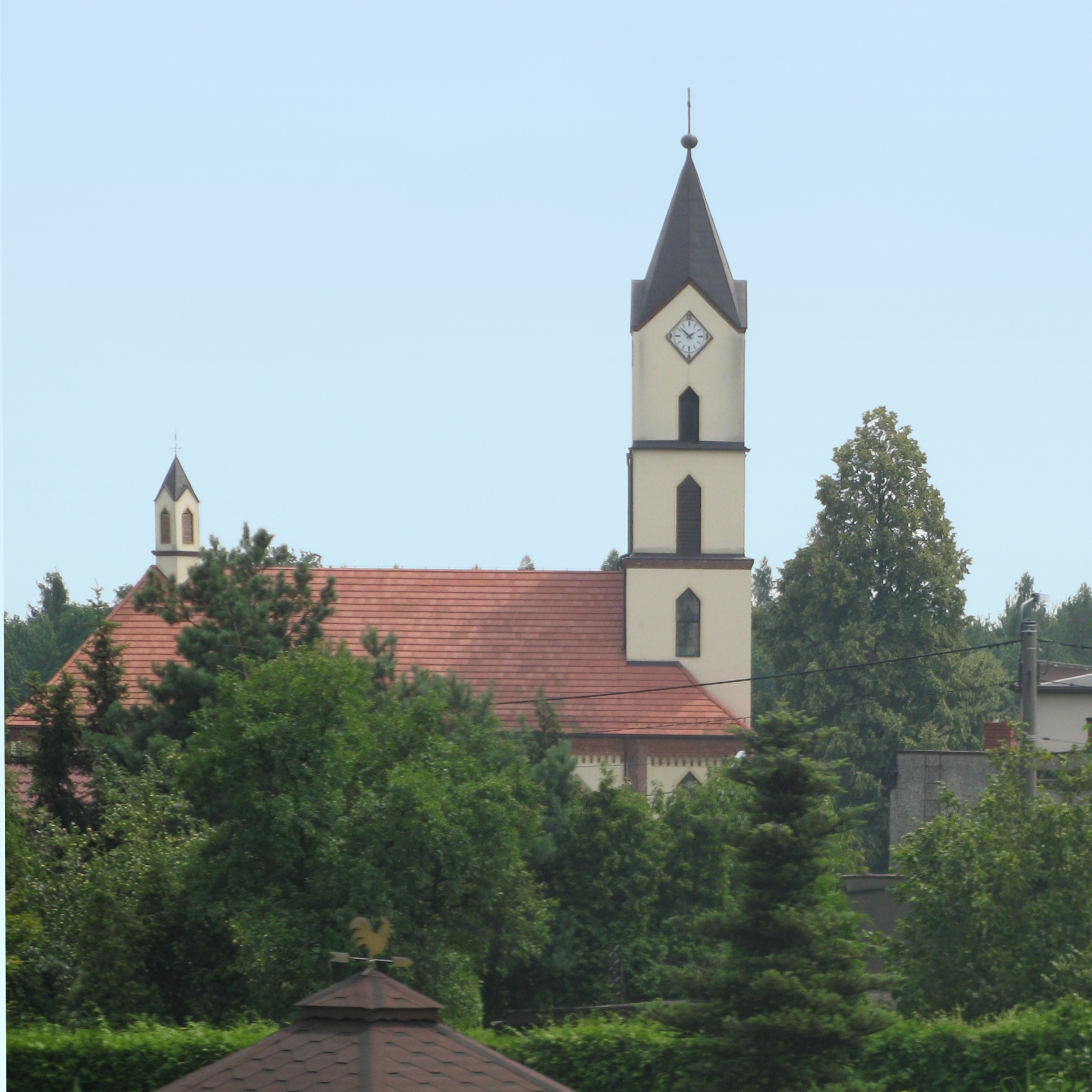 The Roman Catholic parish church of the Nativity of Saint John the Baptist in Orzesze-Jaśkowice, Poland.